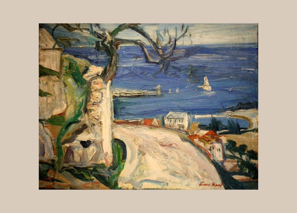 Boža Ilić's painting, Dubrovnik, around 1950